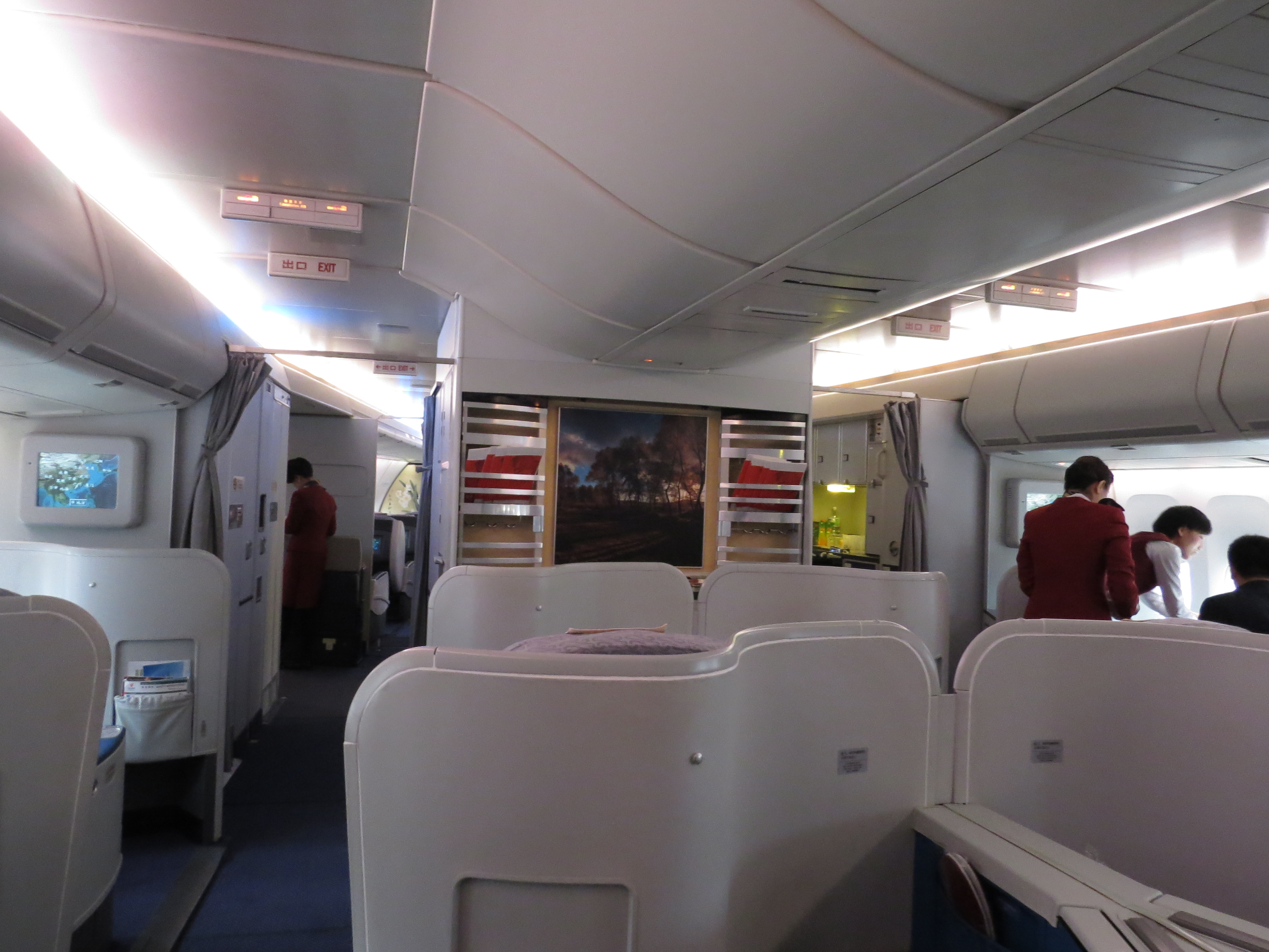 Air China 1316 from Guangzhou to Beijing. This first class product, called "Forbidden Pavilion", was applied to Air China's 747-400 pax jets circa 2006. Nowadays it seems like business class, like that of Cathay Pacific.